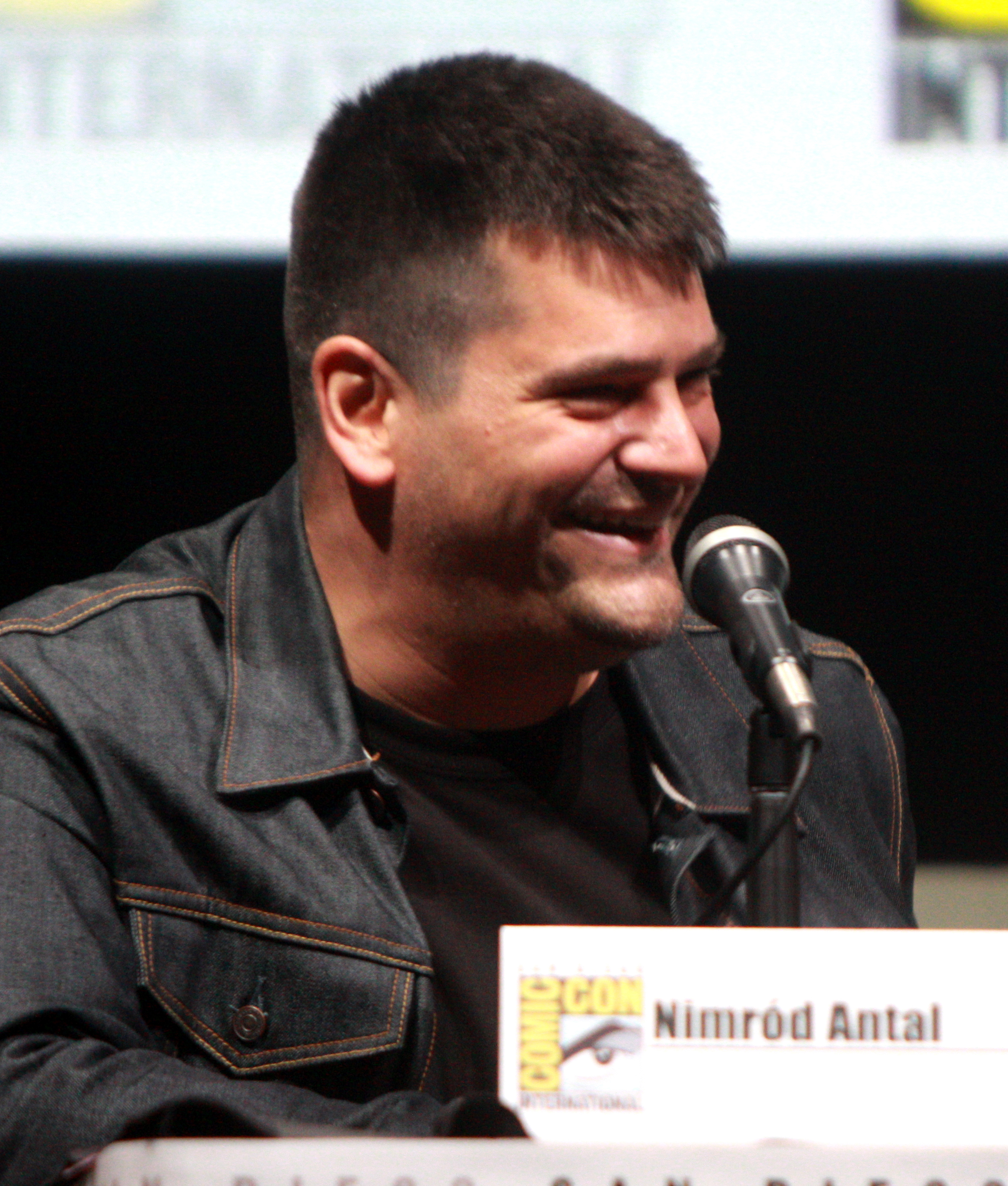 Nimrod Antal at the 2013 San Diego Comic Con International in San Diego, California.